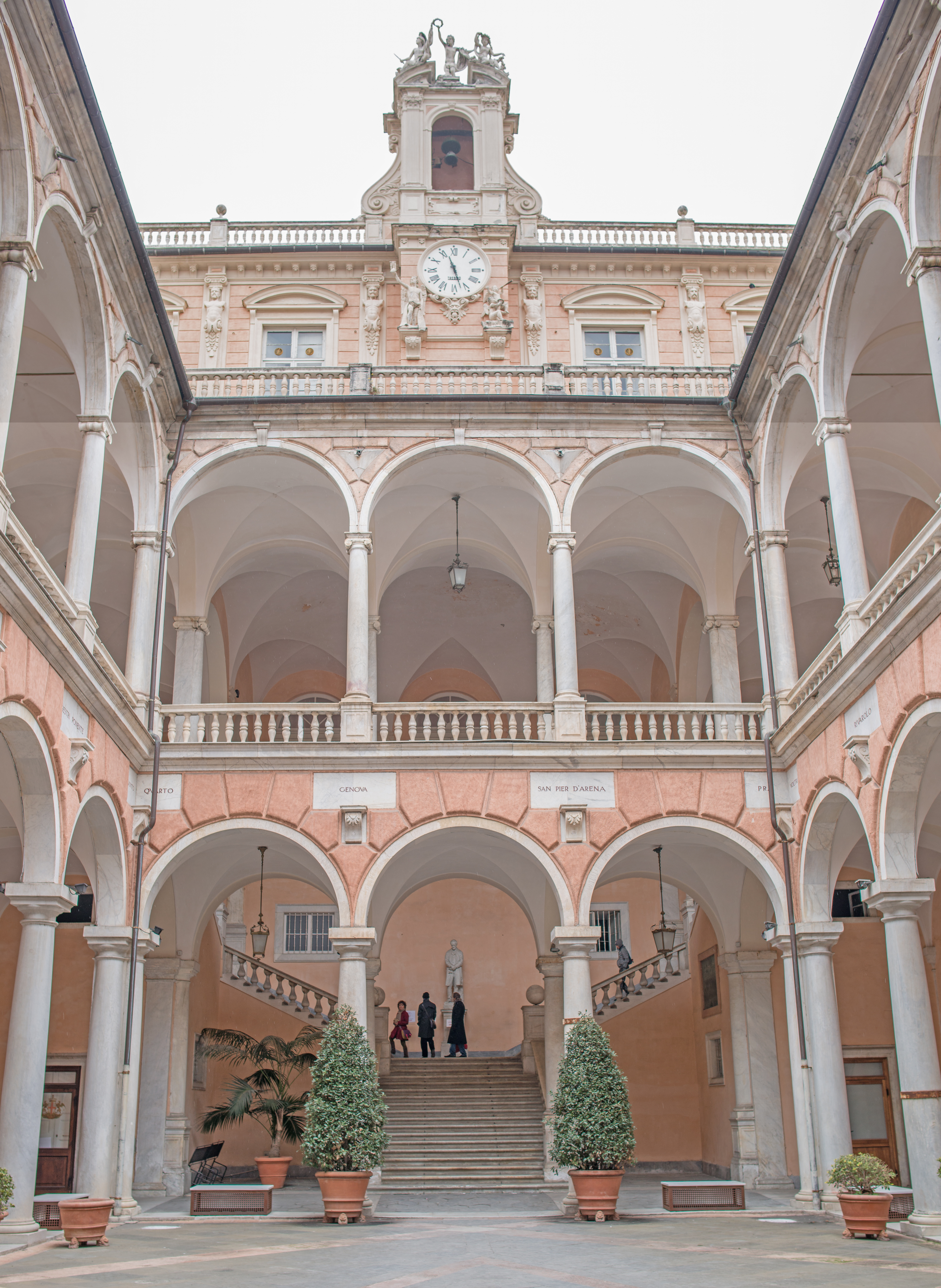 Genoa, Italy, Internal courtyard of Doria-Tursi Palace